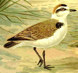 Kentish Plover from old German enc